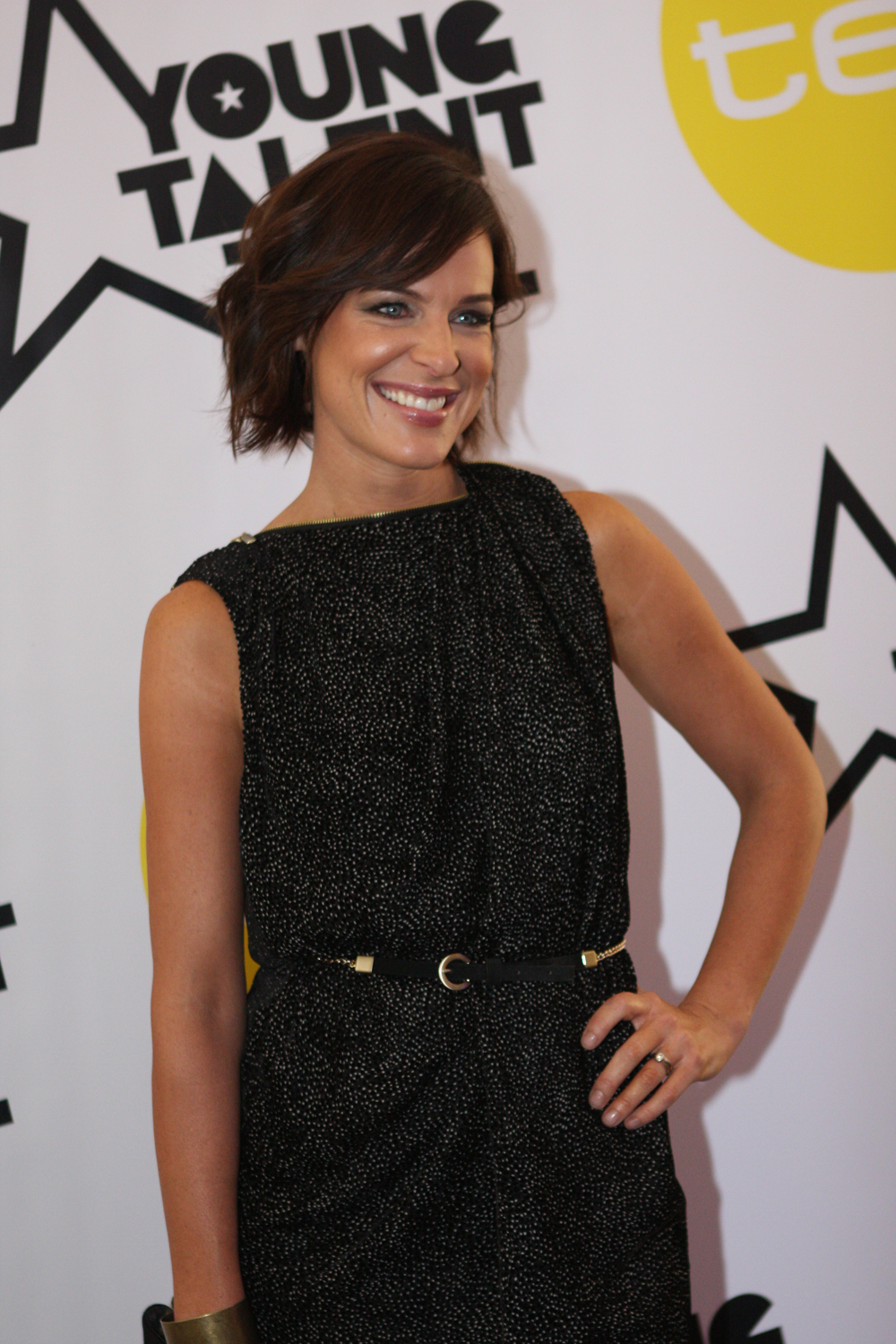 Australian news presenter Natarsha Belling Young Talent Time Media Event at Luna Park Sydney